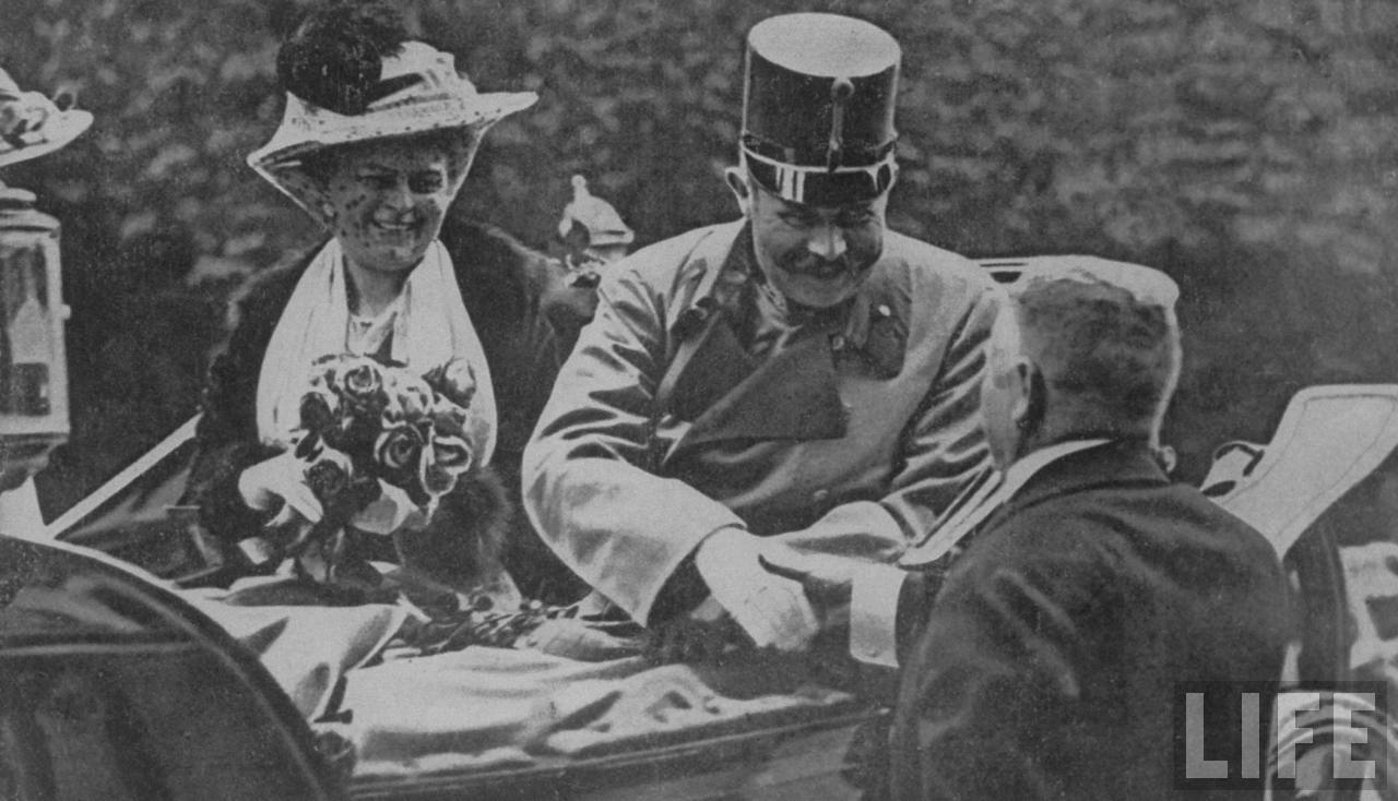 Franz Ferdinadn and his wife Sophie met Bosnian people in Sarajevo streets.